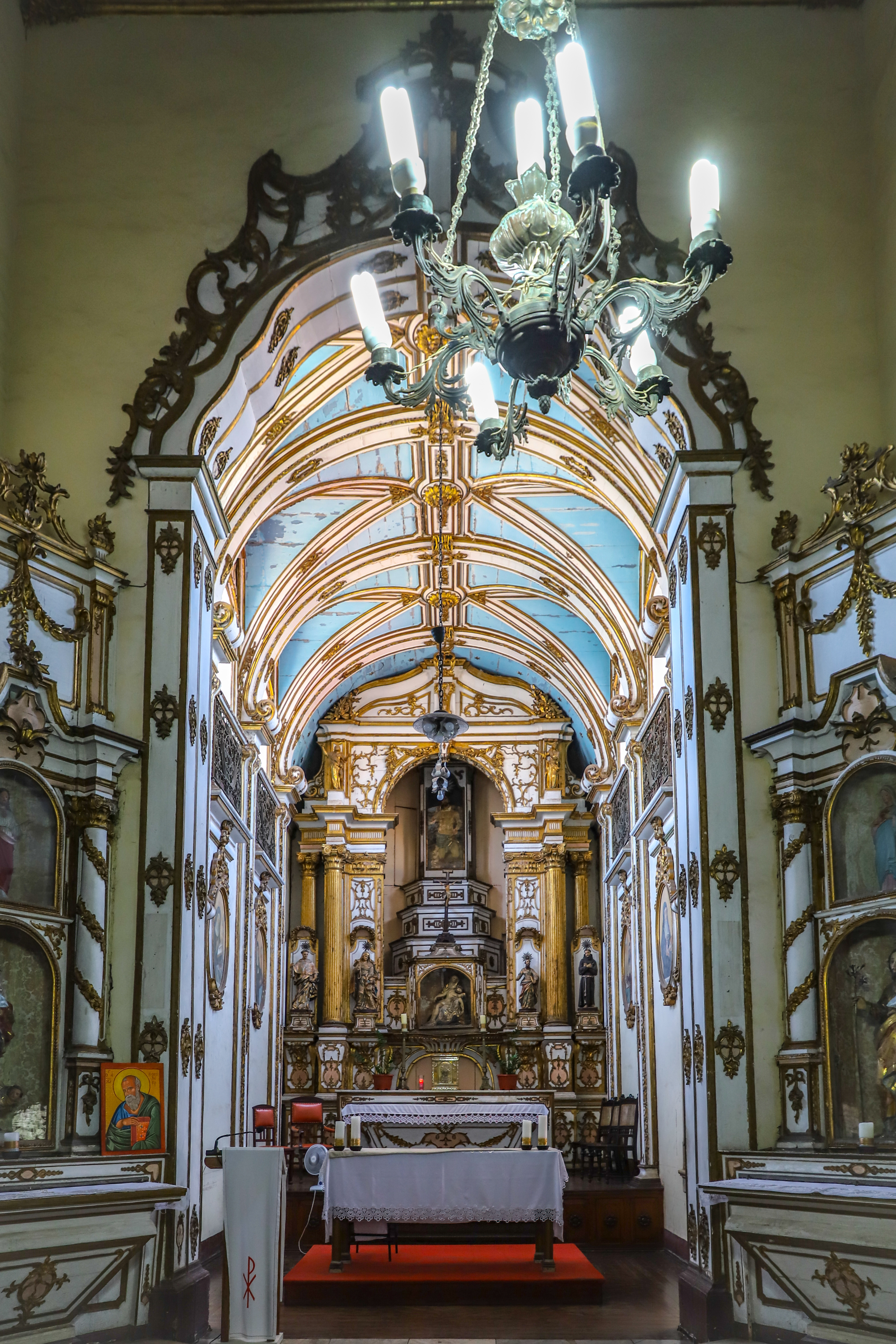 View of chancel and altar, Capela Nossa Senhora da Piedade e Recolhimento do Bom Jesus dos Perdões, Salvador, Bahia, Brazil.